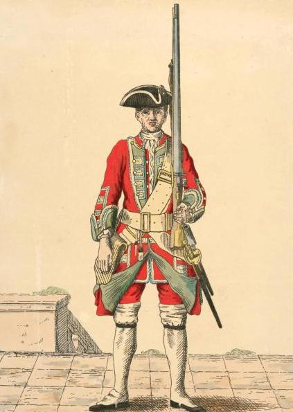 soldier of 19th regiment 1742